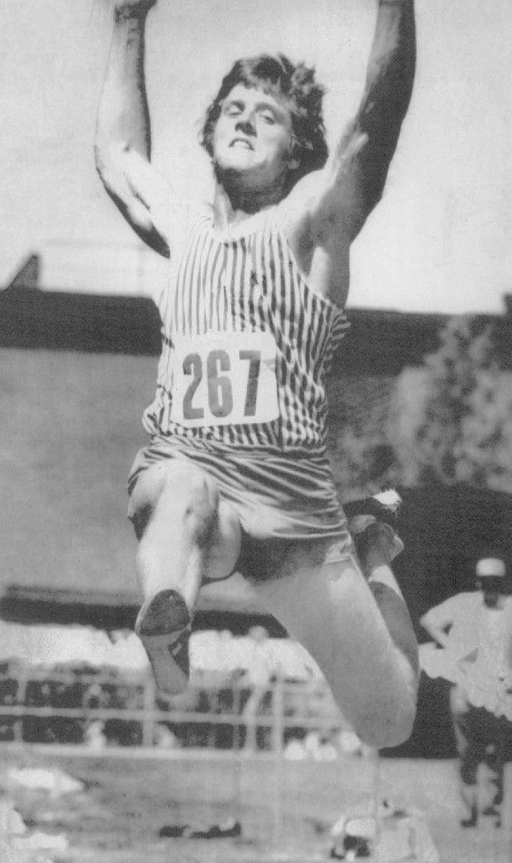 1972 Jeff Bannister Led the Olympic Decathlon Tryouts Press Photo